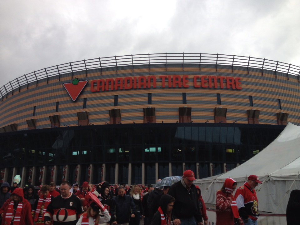 Canadian Tire Centre following a 2013 Ottawa Senators game.